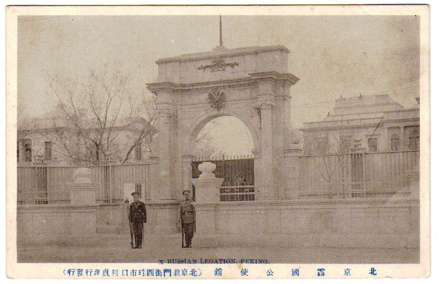 Russian legation in Peking